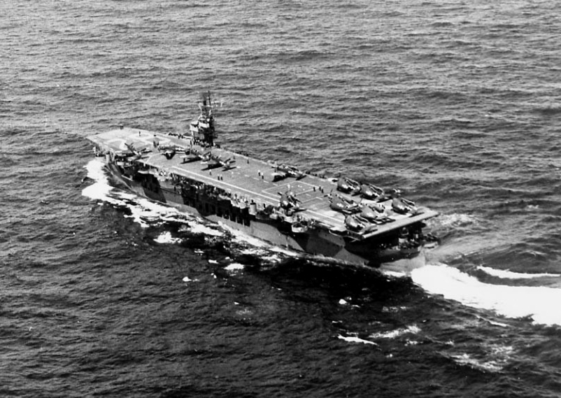 The U.S. Navy escort carrier USS Chenango (CVE-28) operating in the Pacific, circa 1944. She is painted in Camouflage Measure 33, Design 10A.